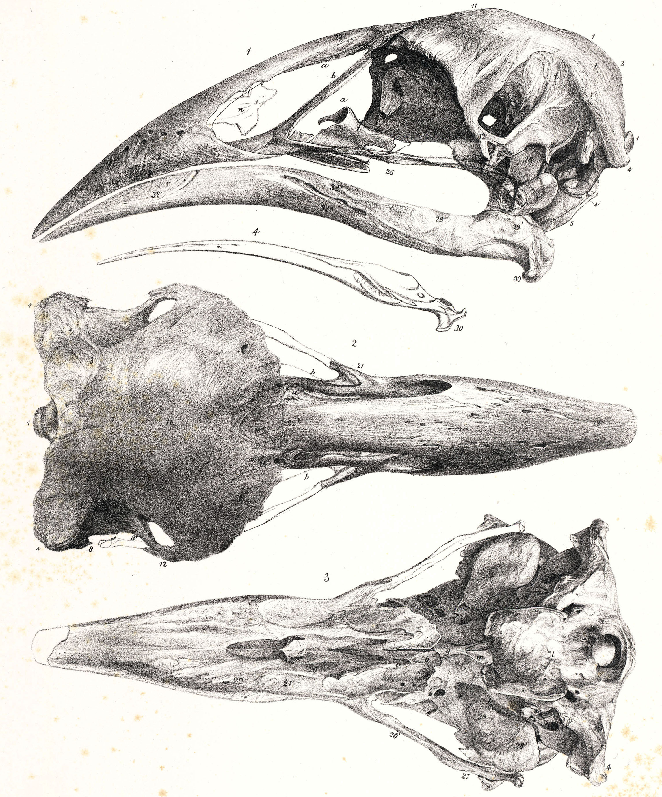 Aptornis defossor. Fig. 1. Side view of skull. Fig. 2. Top view of skull. Fig. 3. Base view of skull (without mandible). Fig. 4. Side view of mandible of Aphanapteryx (ex A. Milne-Edwards, 'Ibis,' From Memoirs on the Extinct Wingless Birds of New Zealand, with an Appendix on those of England, Australia, Newfoundland, Mauritius, and Rodriguez by Sir Richard Owen